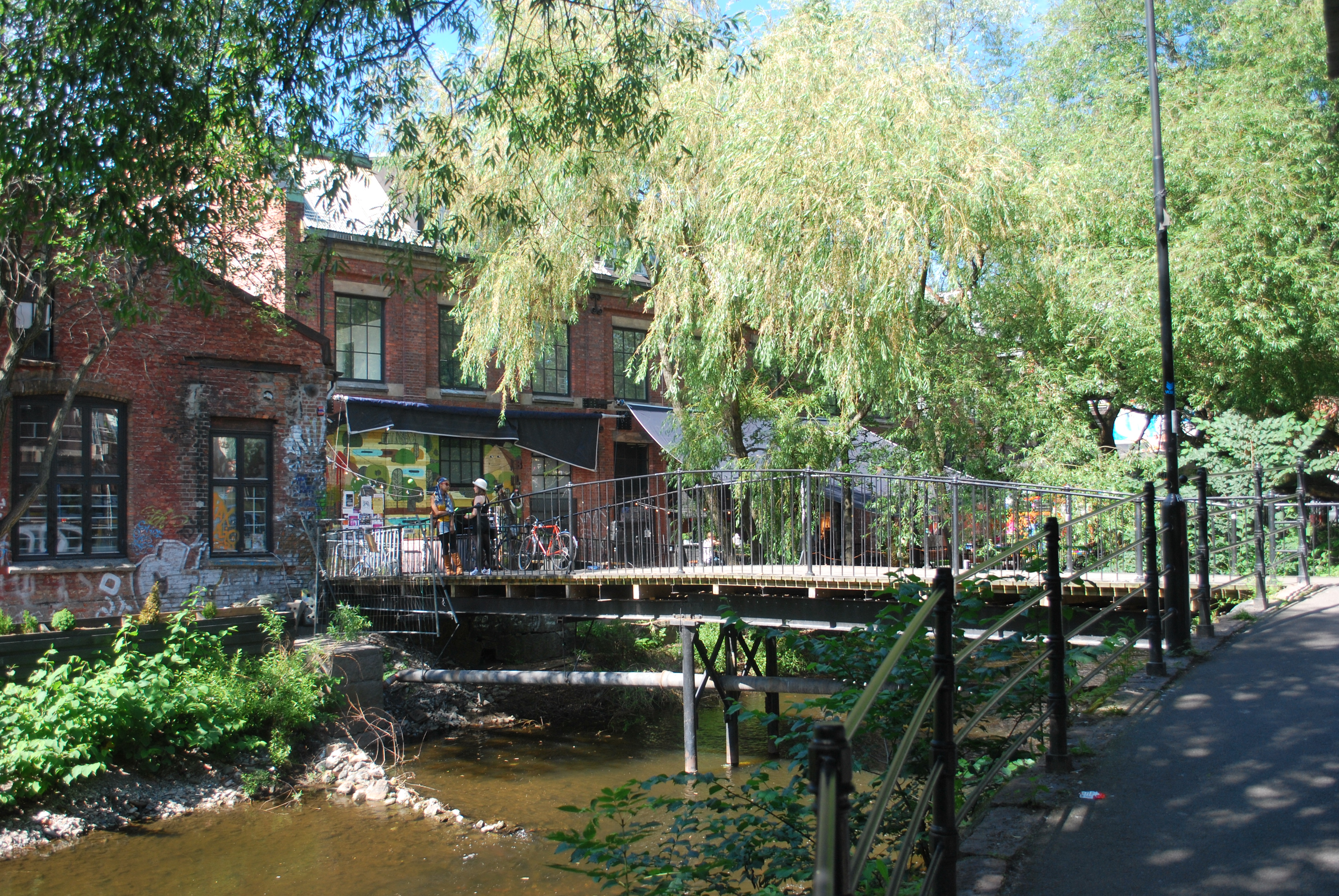 Bridge over Akerselva by music house Blå/Blaa, Brenneriveien (west). Grünerløkka, Oslo.